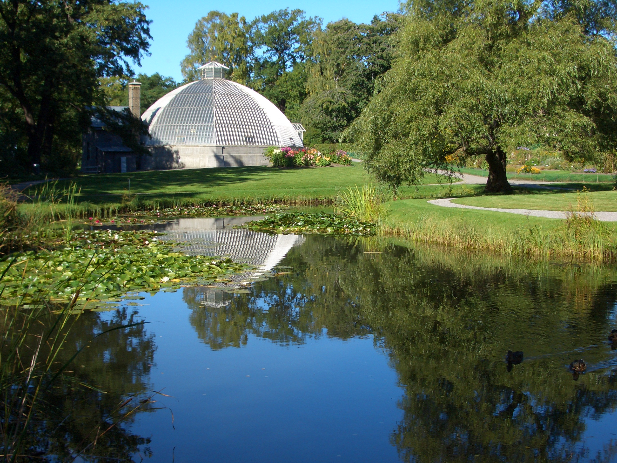 Victoria House, Begianska Botanic garden, Stockholm